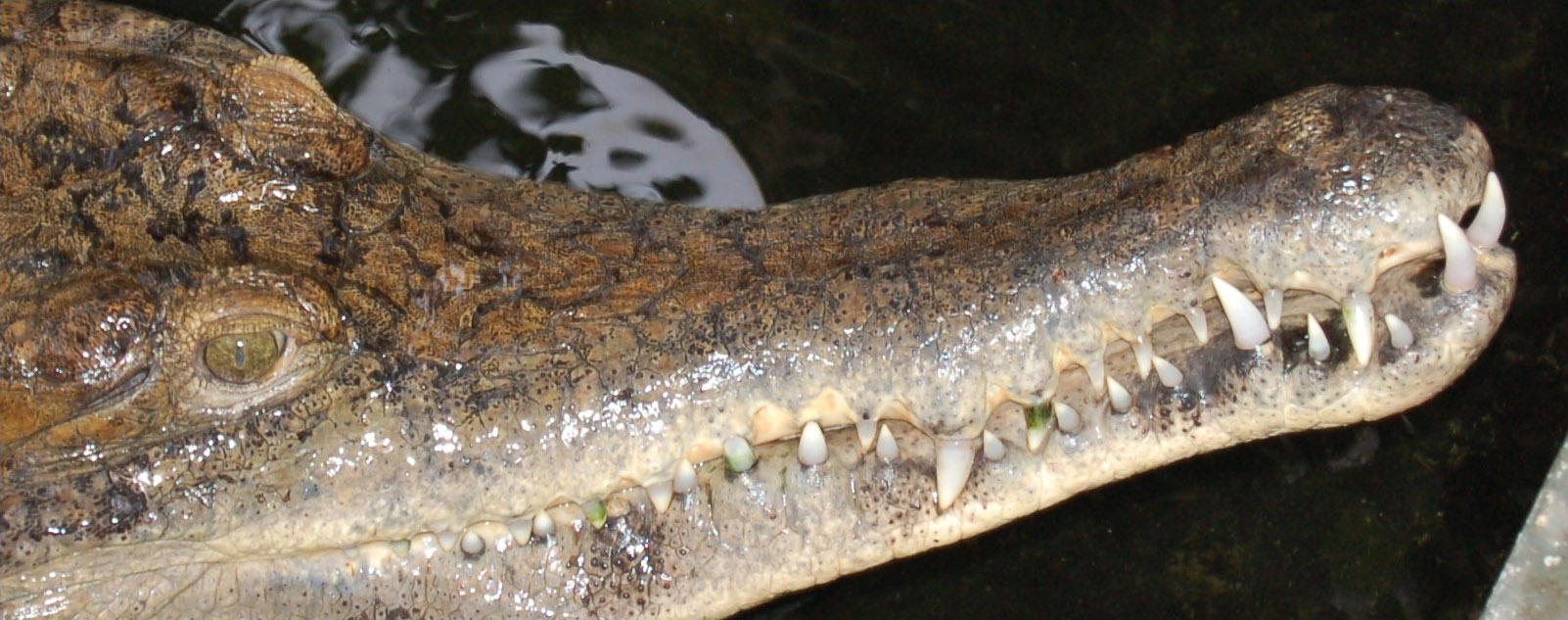 Head of the slender-snouted crocodile (Mecistops cataphractus), Dierenpark Emmen, Netherlands.